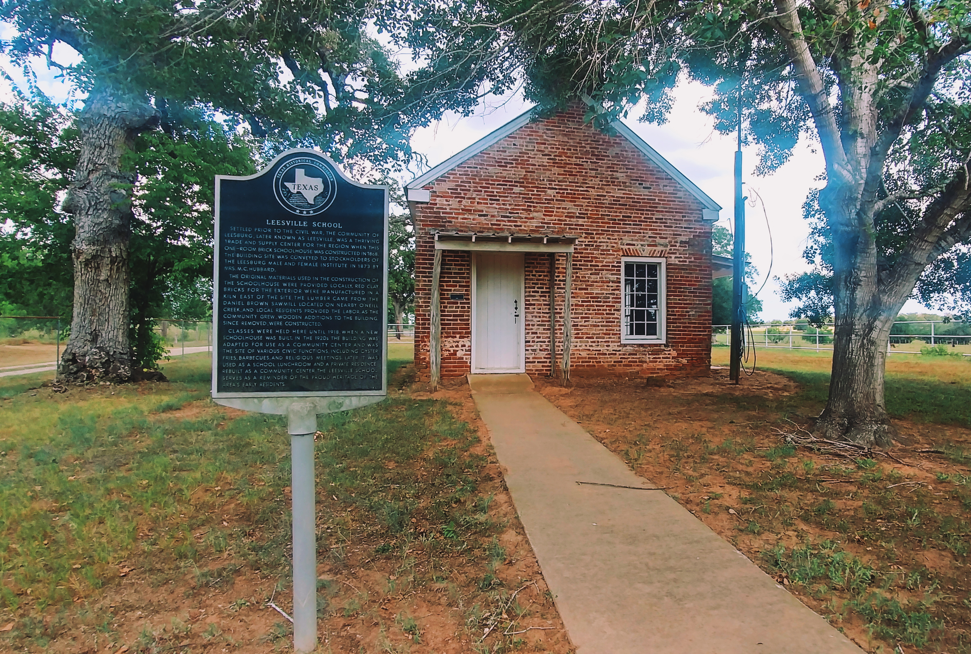 Leesville School House with Historical Marker